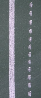 stick-slip effect with a shalk on a blackboard